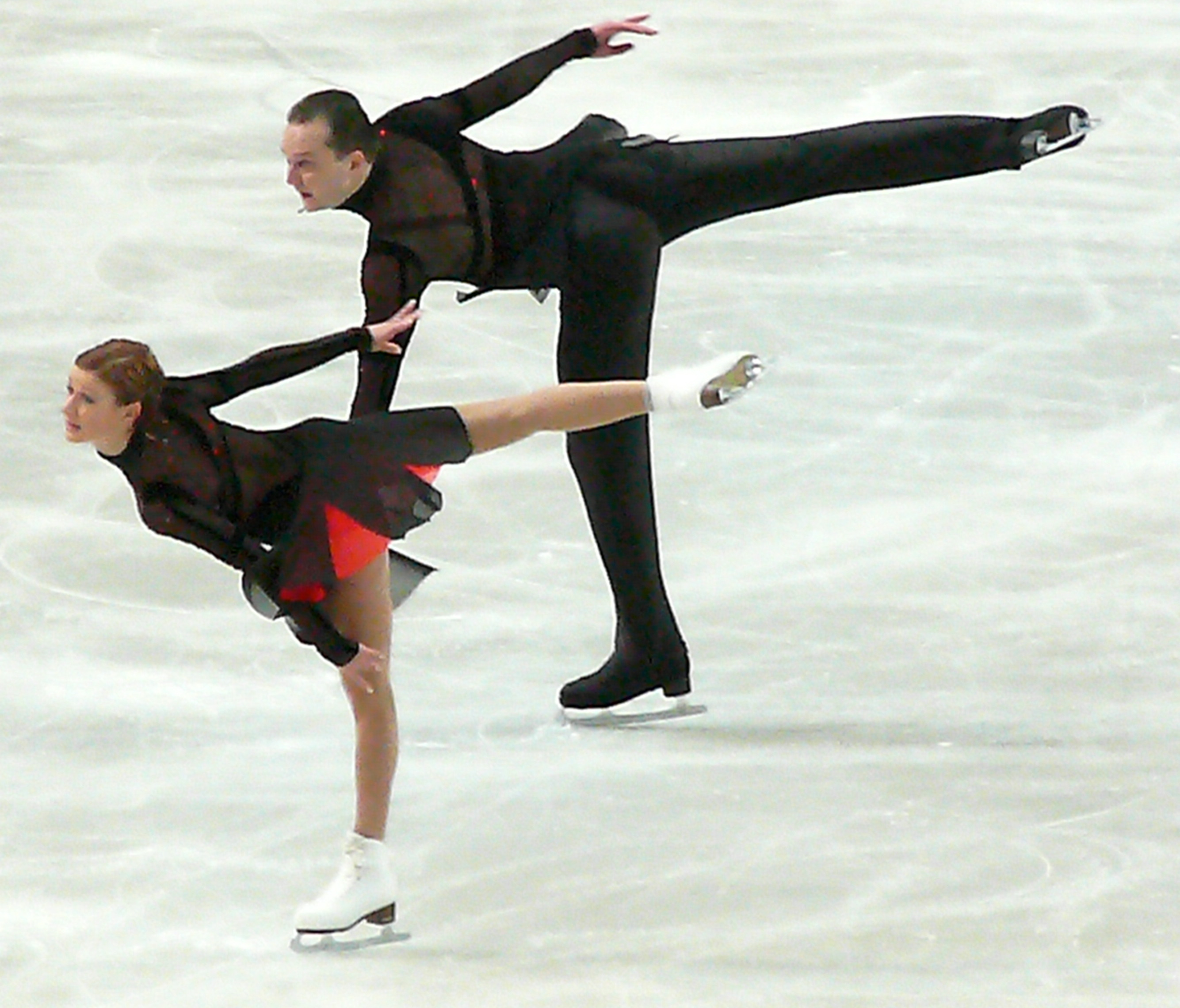 Tatiana Voloshozhar and Stanislav Morozov (UKR) at the short program of the European Championships 2007 in Warsaw